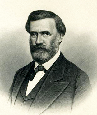 E. G. Williams and Bro. "Engraving, 1890-1910